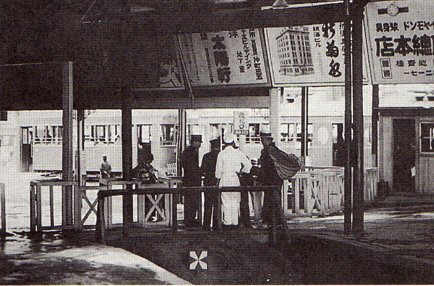 Platform at Kobe station of Hankyu Railway Kobe line. Later the station was renamed to Kamitsutsui station in 1936, and abondoned in 1940.